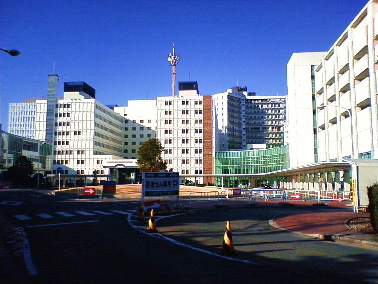 fujita health university hospital